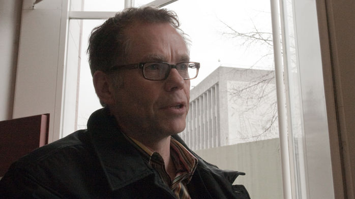 Arne Odden, General Manager of Apple Norway